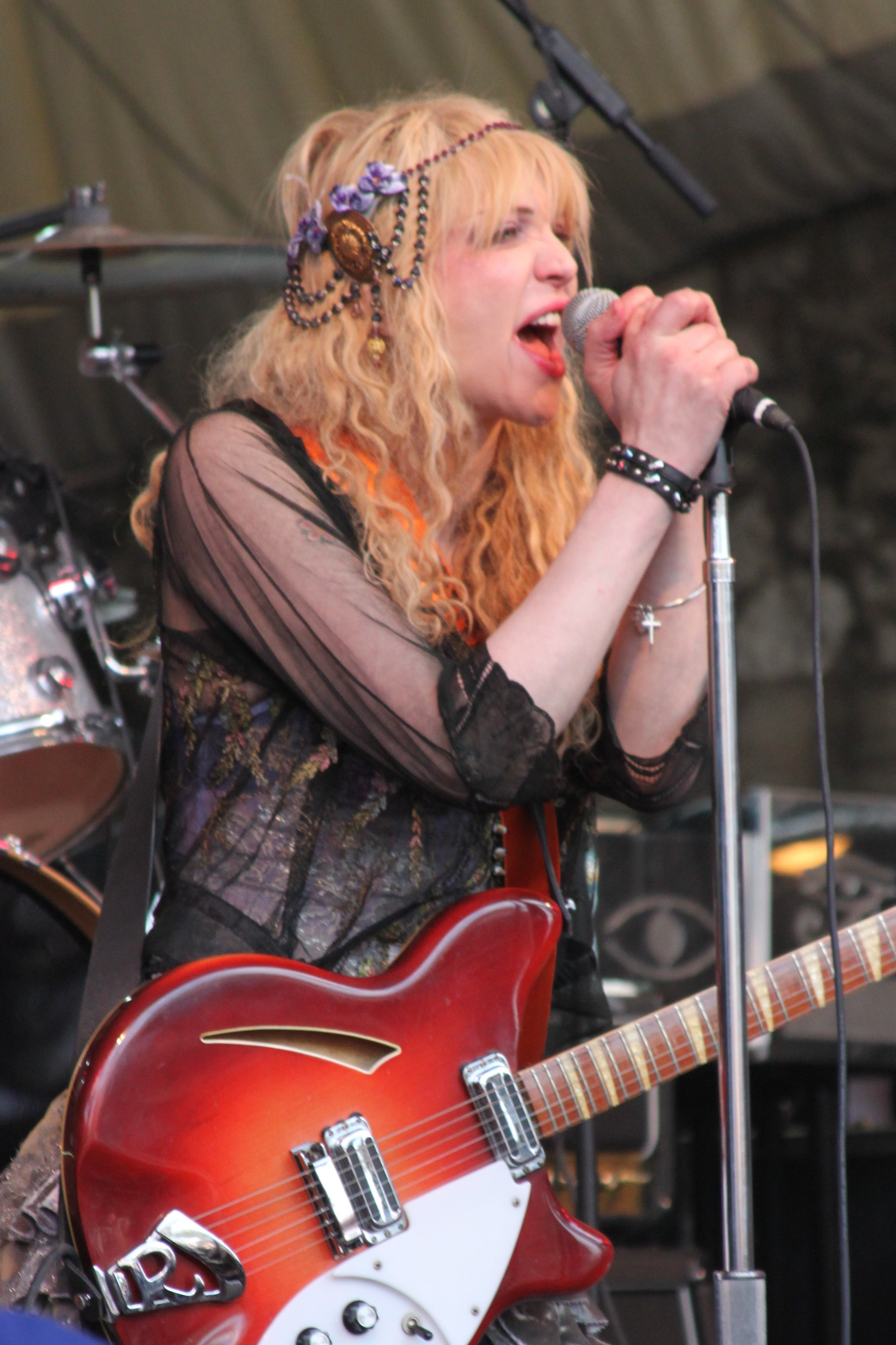 Courtney Love of Hole performing at Spin Magazine's Stubb's BBQ Party, day four of SXSW 2010